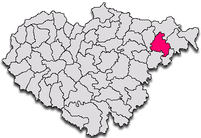 Map Salaj County Romania